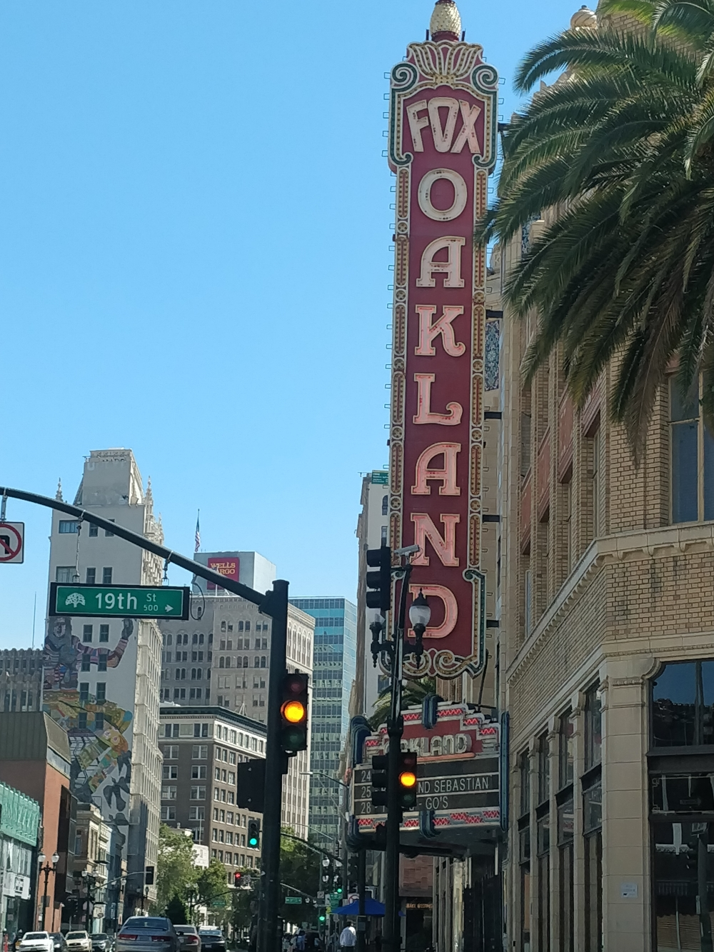 Fox Oakland Theater first opened in 1928. the theatre is listed on the National Register of Historic Places.